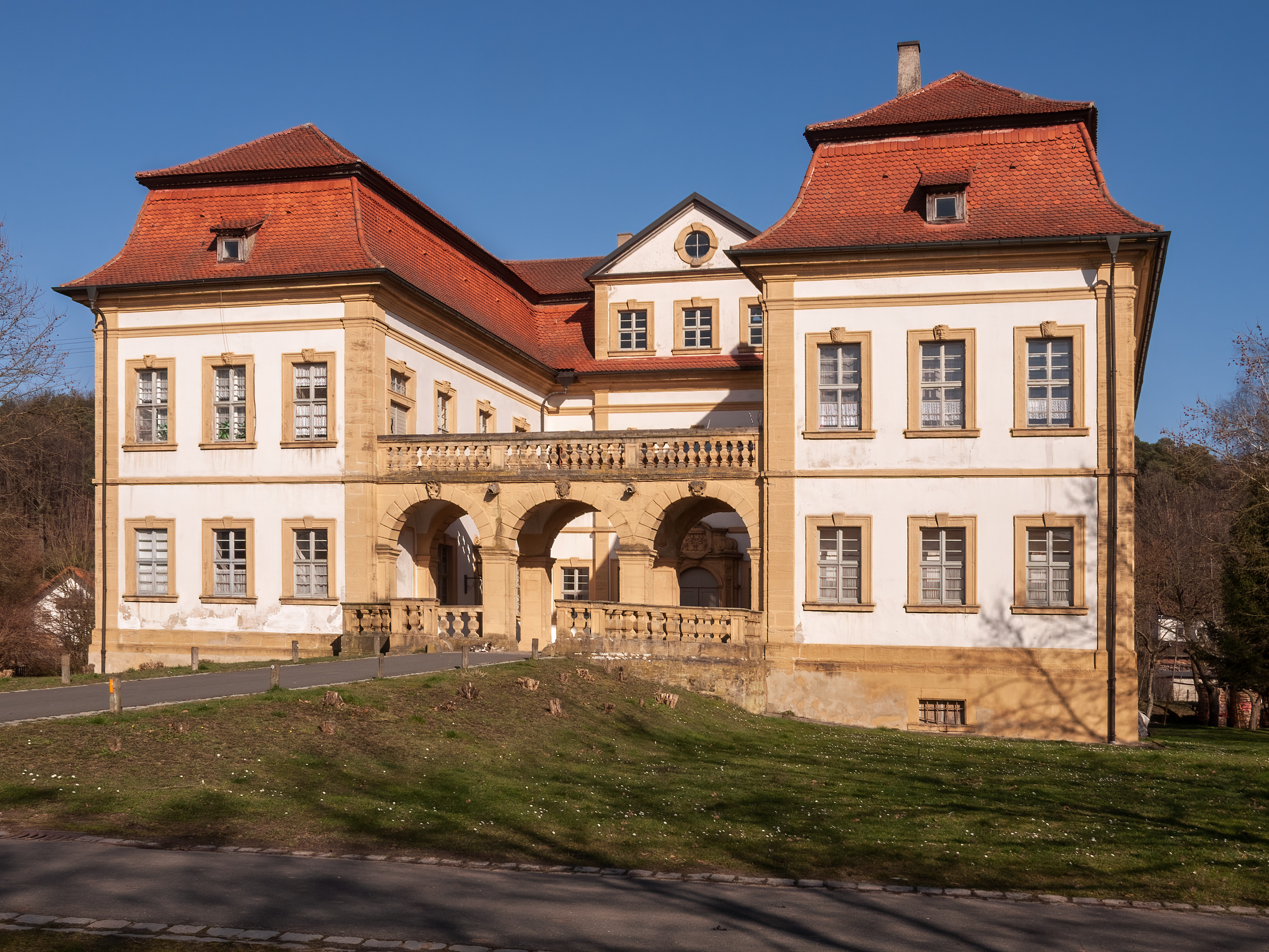 Castle in Heilgersdorf